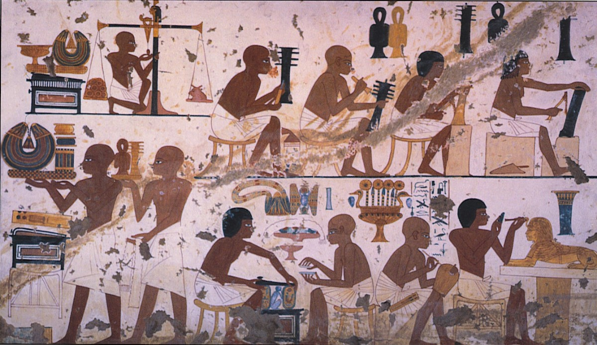 Depiction of Egyptian Farmers, wikimedia